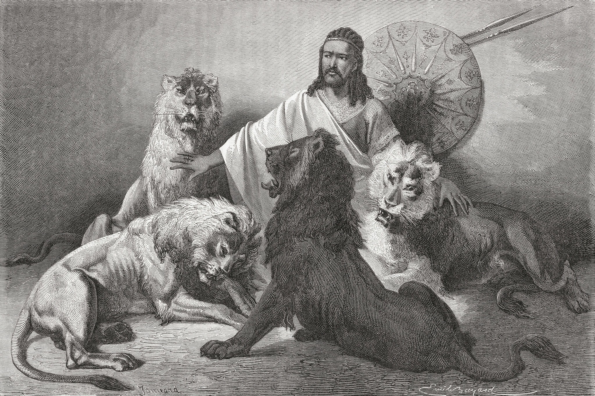 Atse Tewodros II of Ethiopia with his lions.